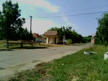 Aldebrő railway station